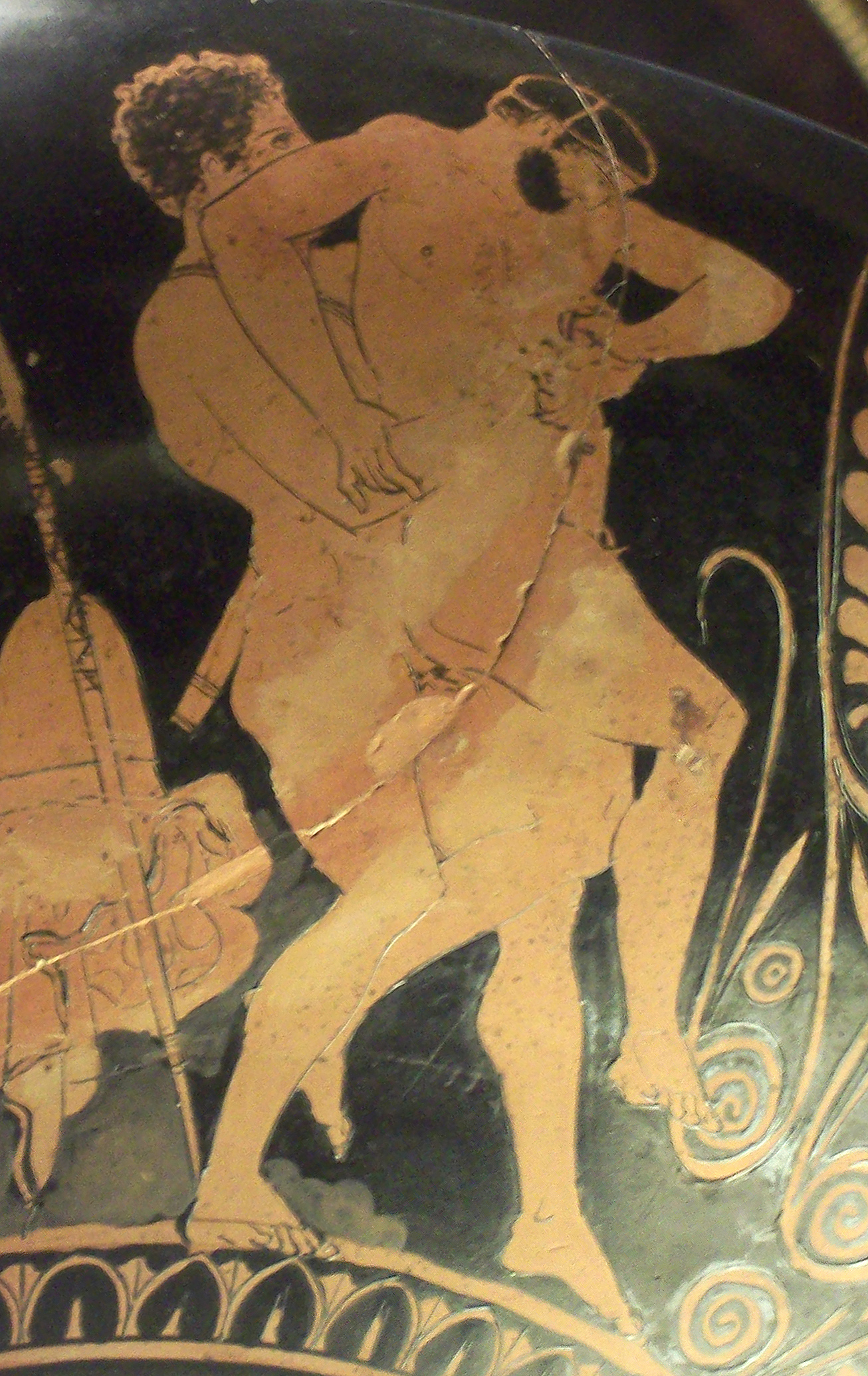 Theseus fights Cercyon. Detail of the lower part of the Aison Cup.